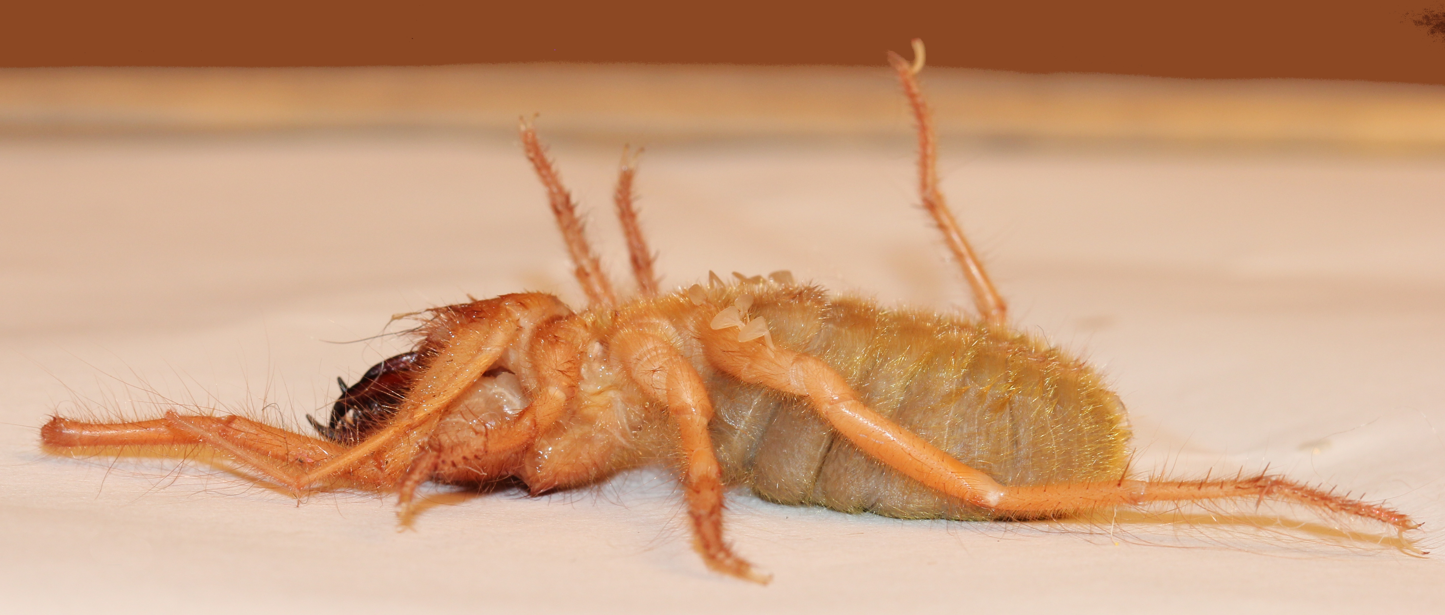 Solpugidae, large female supine showing malleoli on underside of coxa and trochanter of fourth leg, Apex of each malleolus points forward!